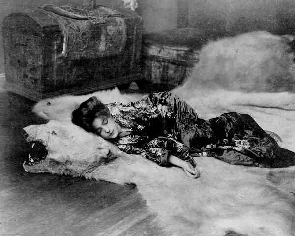 Evelyn Nesbit on a bear rug, 1901; platinum print, 7 x 9 in.